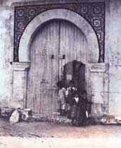 Dar-Ayed_-_Place of Destour_party_congress_of_1934